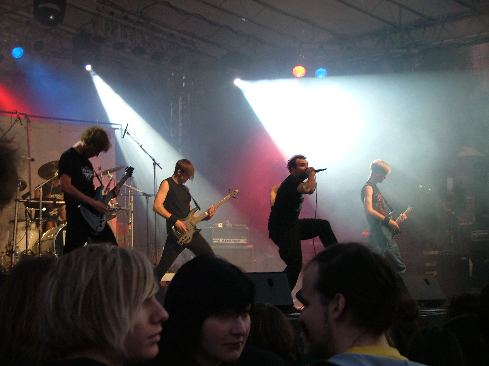 German metalcore band Neaera at 'Rock the Lake' in Finkenstein am Faaker See